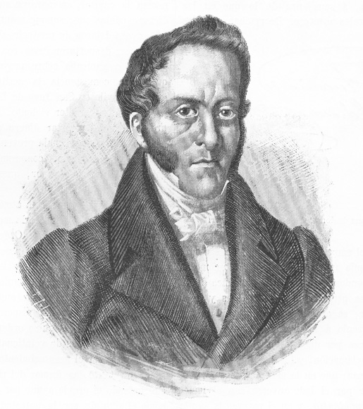 Image of the President of Mexico (1832-1833) Manuel Gómez Pedraza, who won elections in 1829, and was exiled.